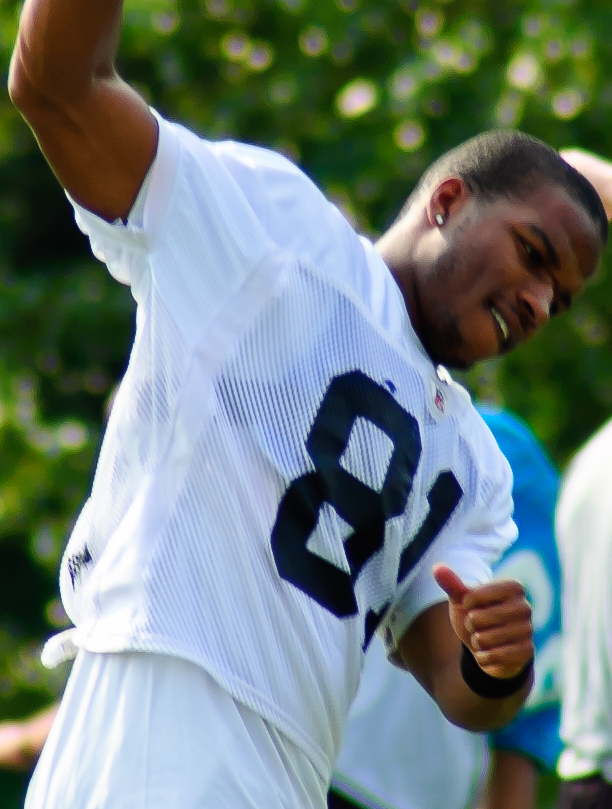 Carolina Panthers Training Camp on August 11, 2010 at Wofford College in Spartanburg, SC.